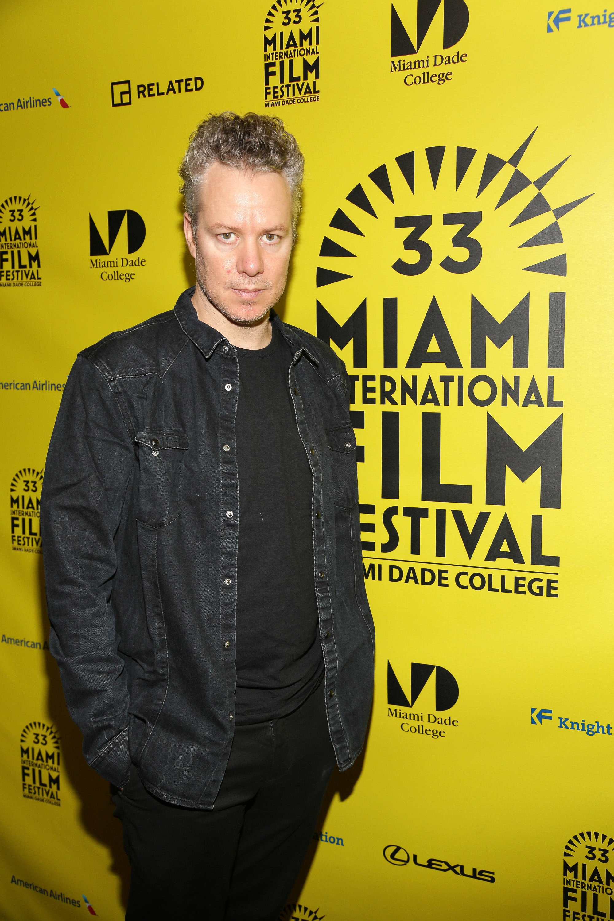 Director Federico Veiroj at the Miami Film Festival Photo: Alberto Tamargo